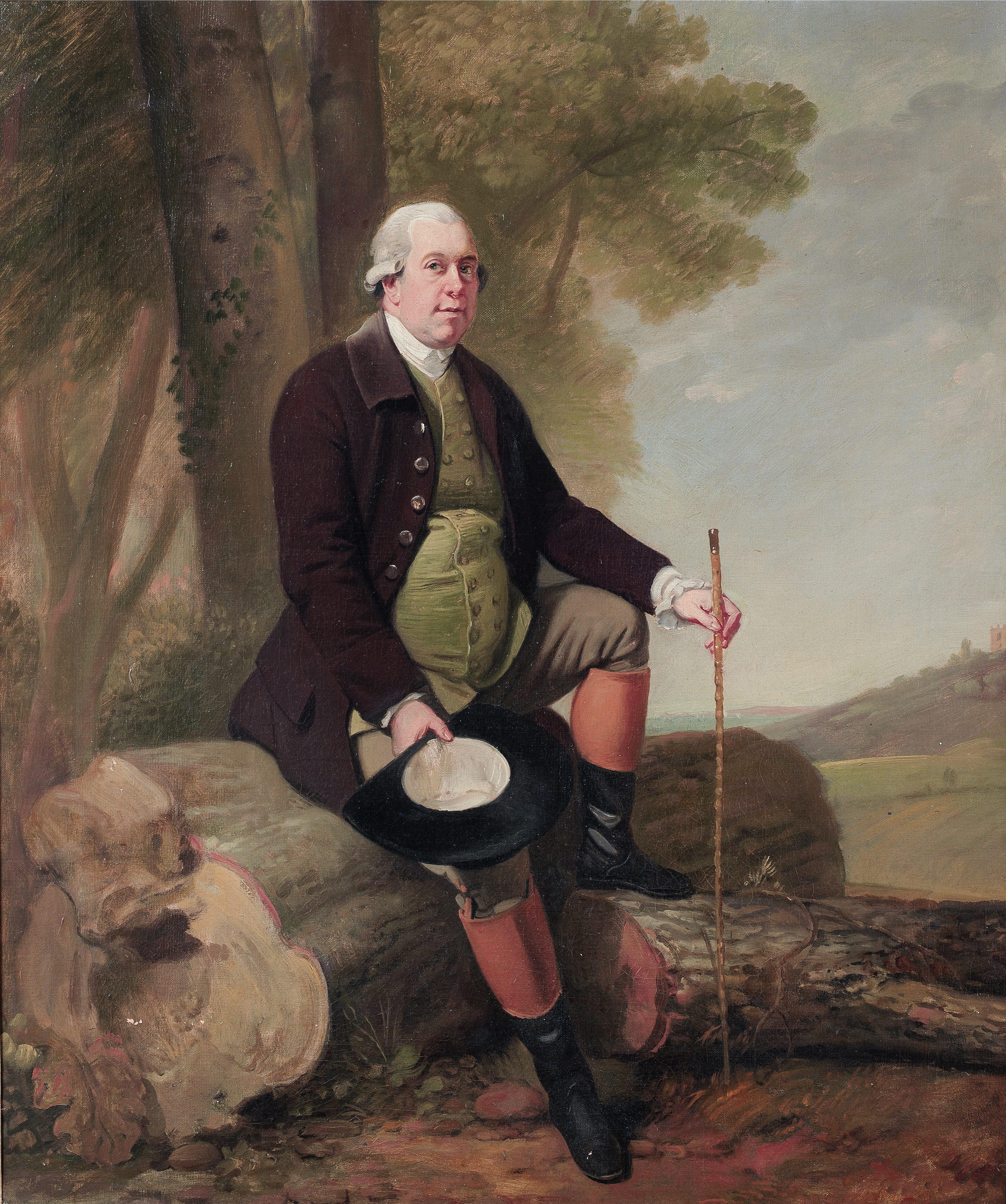 Jervoise Clarke-Jervoise (1734-1808), the first to use the name Clarke-Jervoise. He was born Jervoise Clarke, and added his maternal grandfather's surname Jervoise in 1777. He was a longstanding MP for Southampton and Newport and the Isle of Wight. Painting was previously thought to be by Zoffany. Bonham's, London, 30 April 2014, lot 210, sold for £8,750, including buyer's premium and VAT on the premium. oil on canvas 30 x 25 1/4 inches (76.5 x 64.3 cm) circa 1775-1779 (dated thus by Mary Webster)